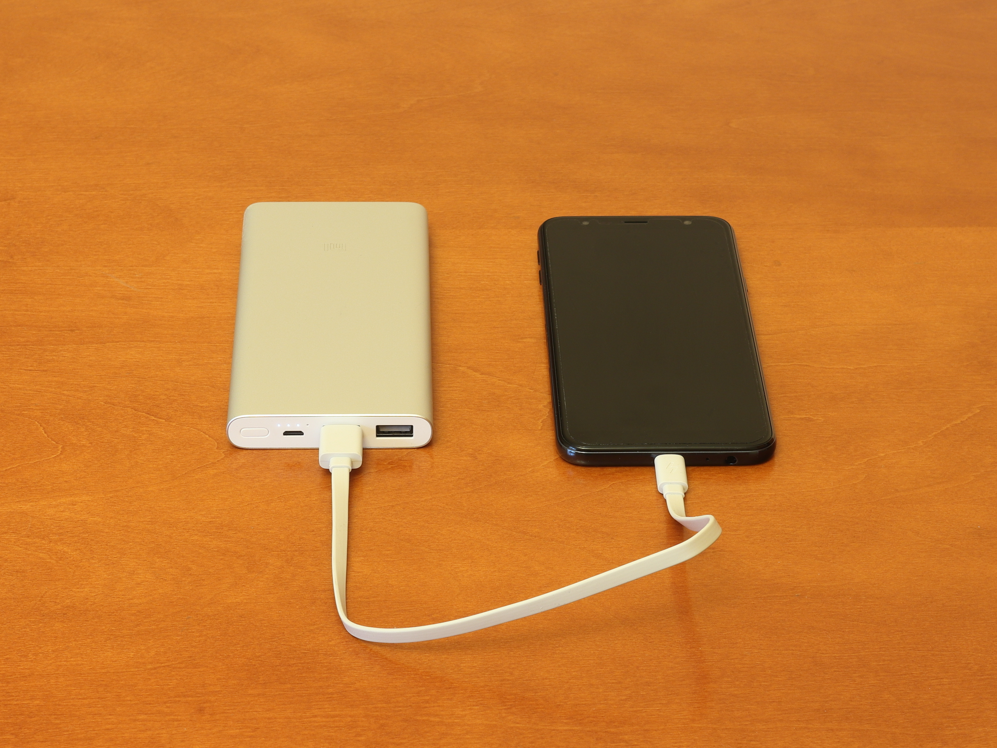 Xiaomi powerbank 10000 mAh charging Samsung Galaxy J4+ smartphone.